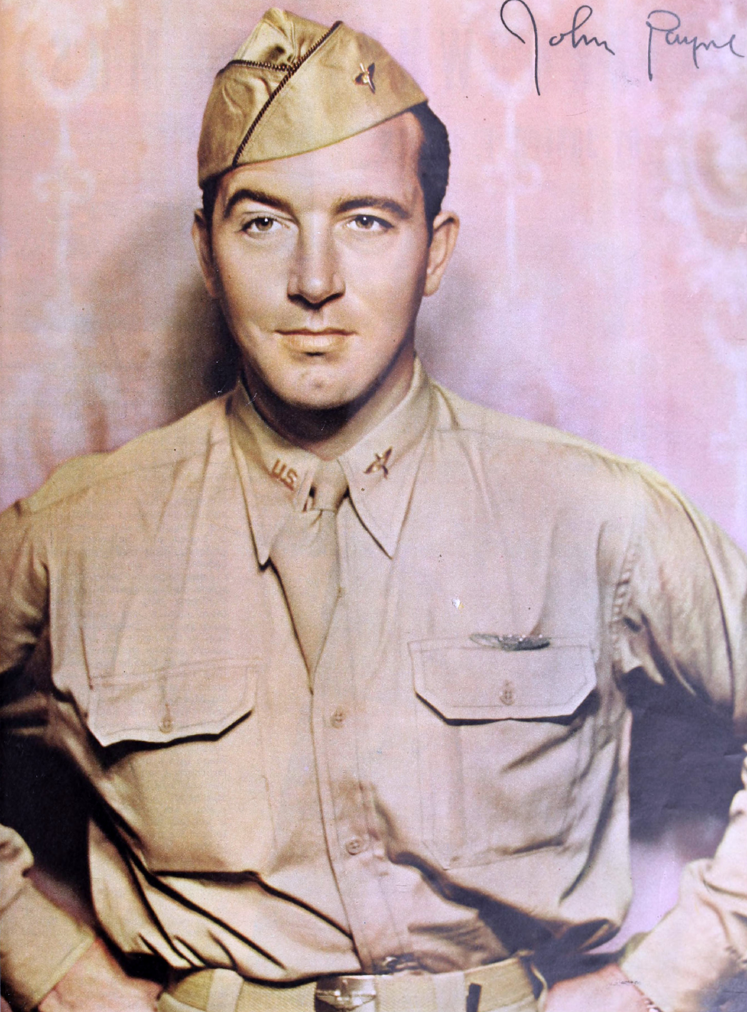 Photo of actor John Payne from 1943, when he was serving in the Army.